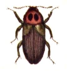 Hallomenus axillaris, from Calwer's Käferbuch, Table 48, Picture 2. Taxonomy was updated to 2008, using mostly the sites Fauna Europaea and BioLib. Please contact Sarefo if the determination is wrong!